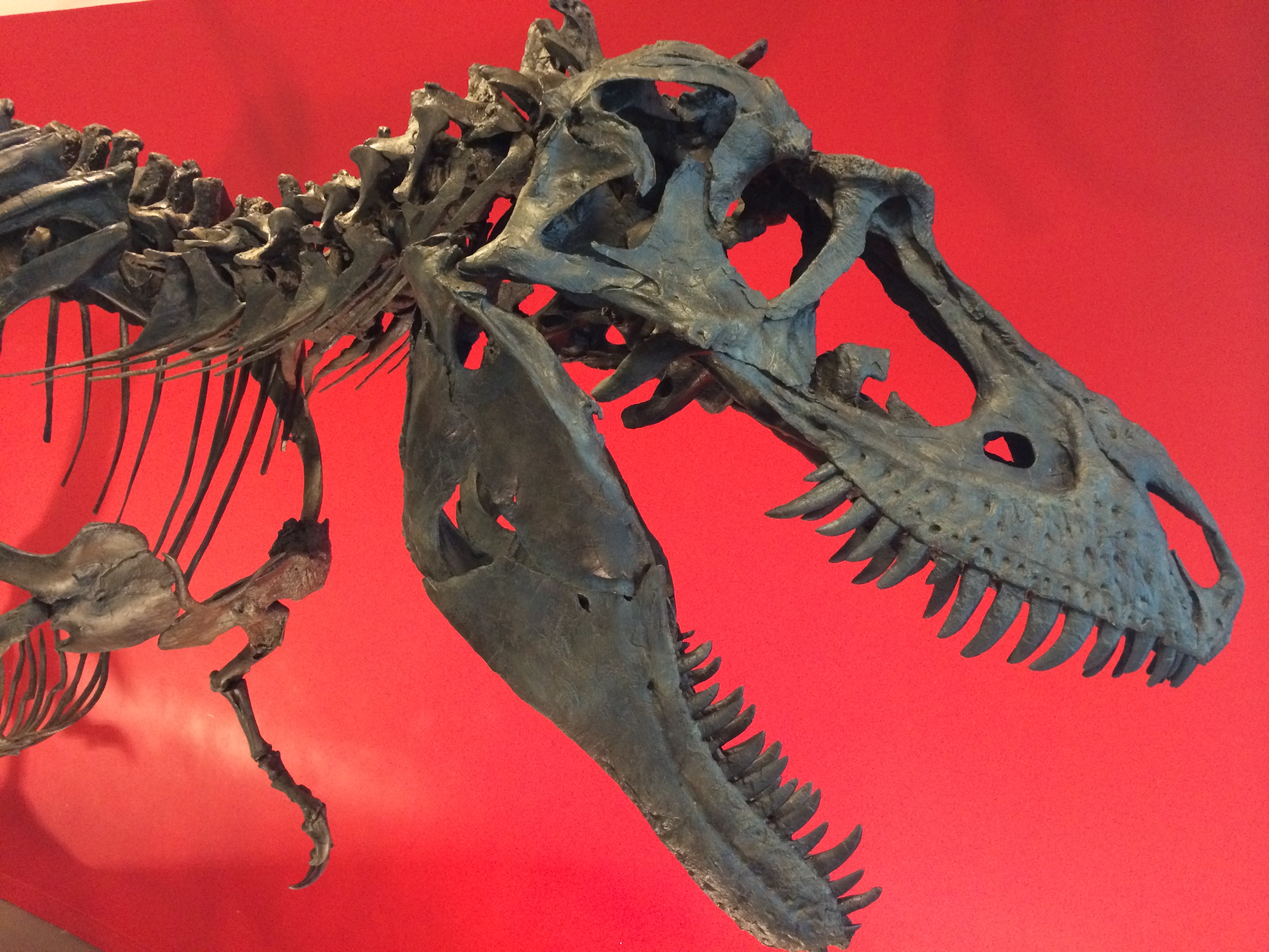 This specimen of Gorgosaurus exhibits multiple pathologies, including evidence of a severe bacterial infection in the lower jaw (not missing teeth and damaged bone). The original specimen is held in The Children's Museum of Indianapolis (Indiana, USA).